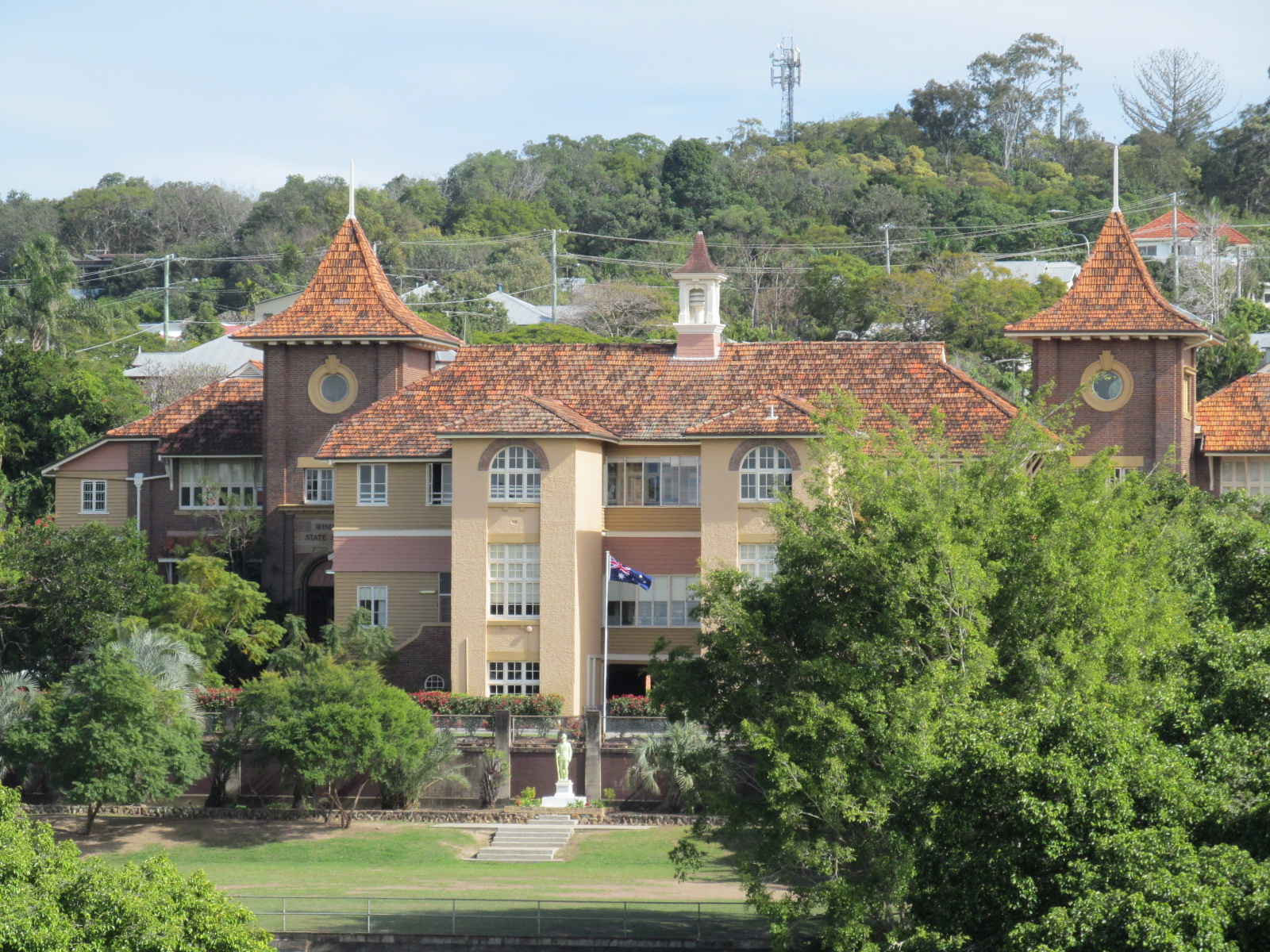 View of Windsor State School, Windsor, Queensland, taken in 2013.